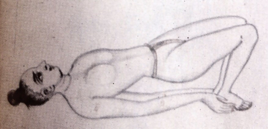 Kamapithasana (Setubandhasana) from Sritattvanidhi manuscript by Mummadi Krishnaraja Wodeyar